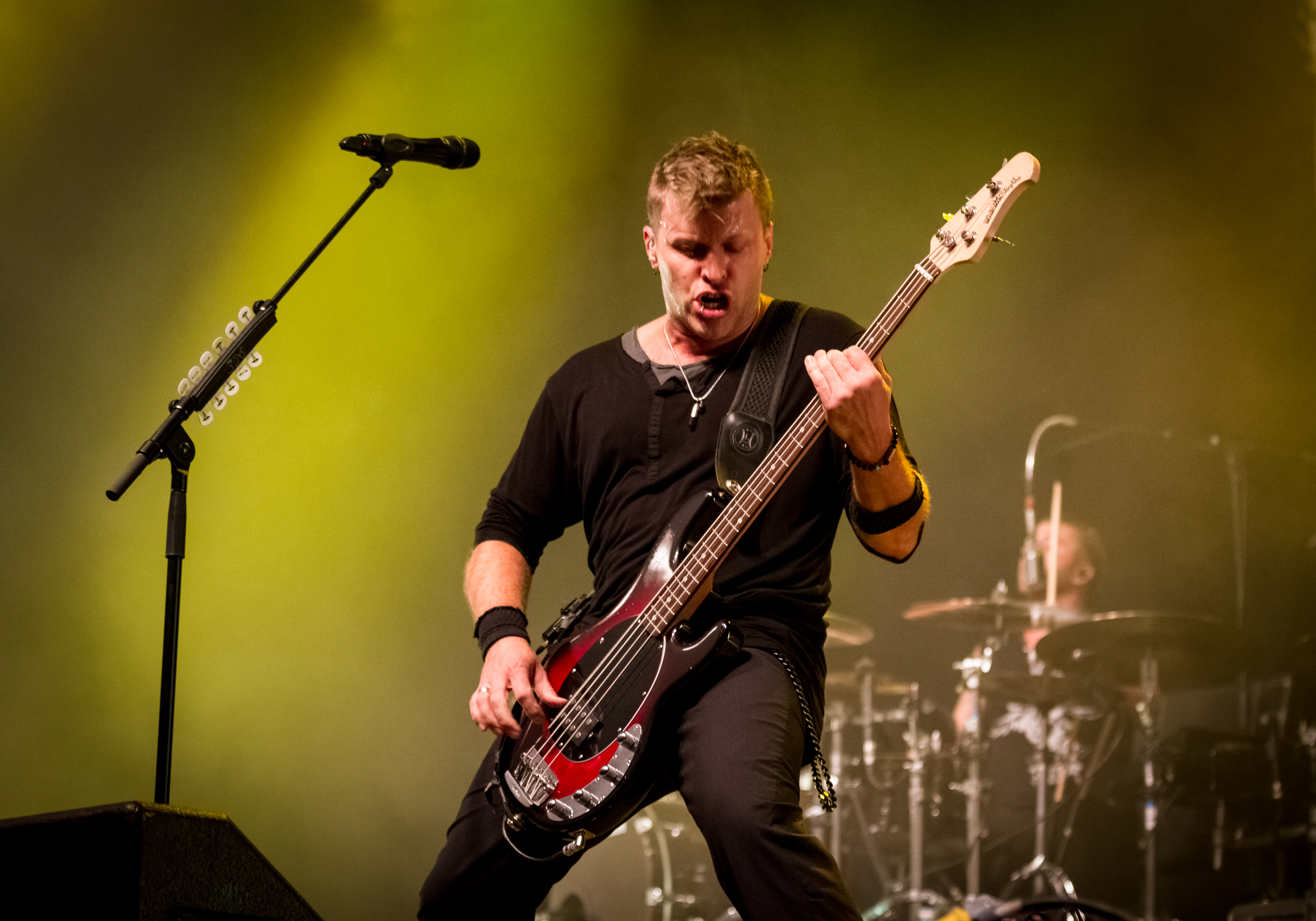 Three Days Grace - Rock am Ring 2015